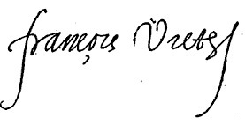 autograph of Franciscus Vieta (1540-1603)